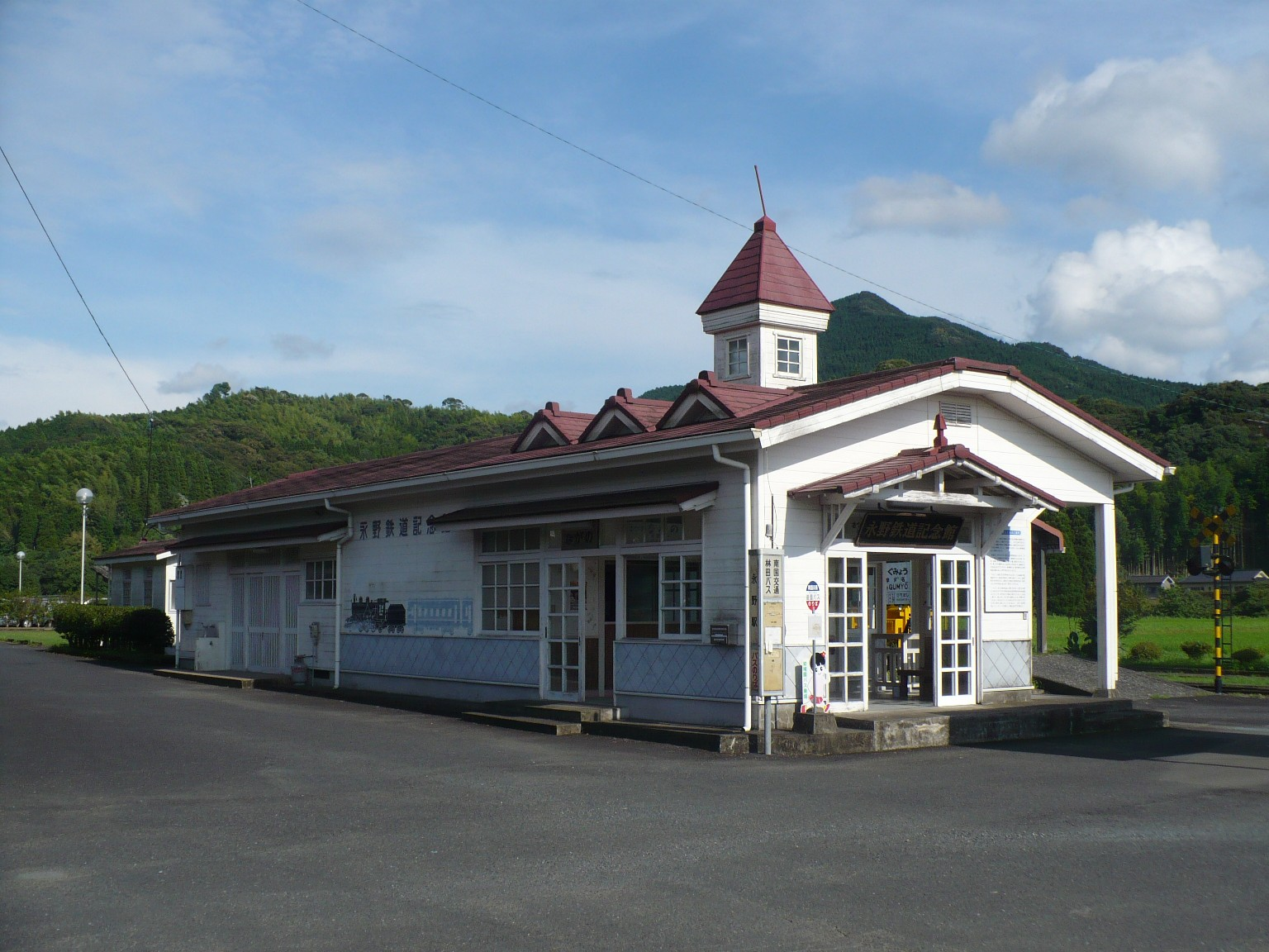 The building at Nagano railway memorial, Satsuma, Kagoshima, Japan. The site was former Satsuma-Nagano station of JNR Miyanojo line.